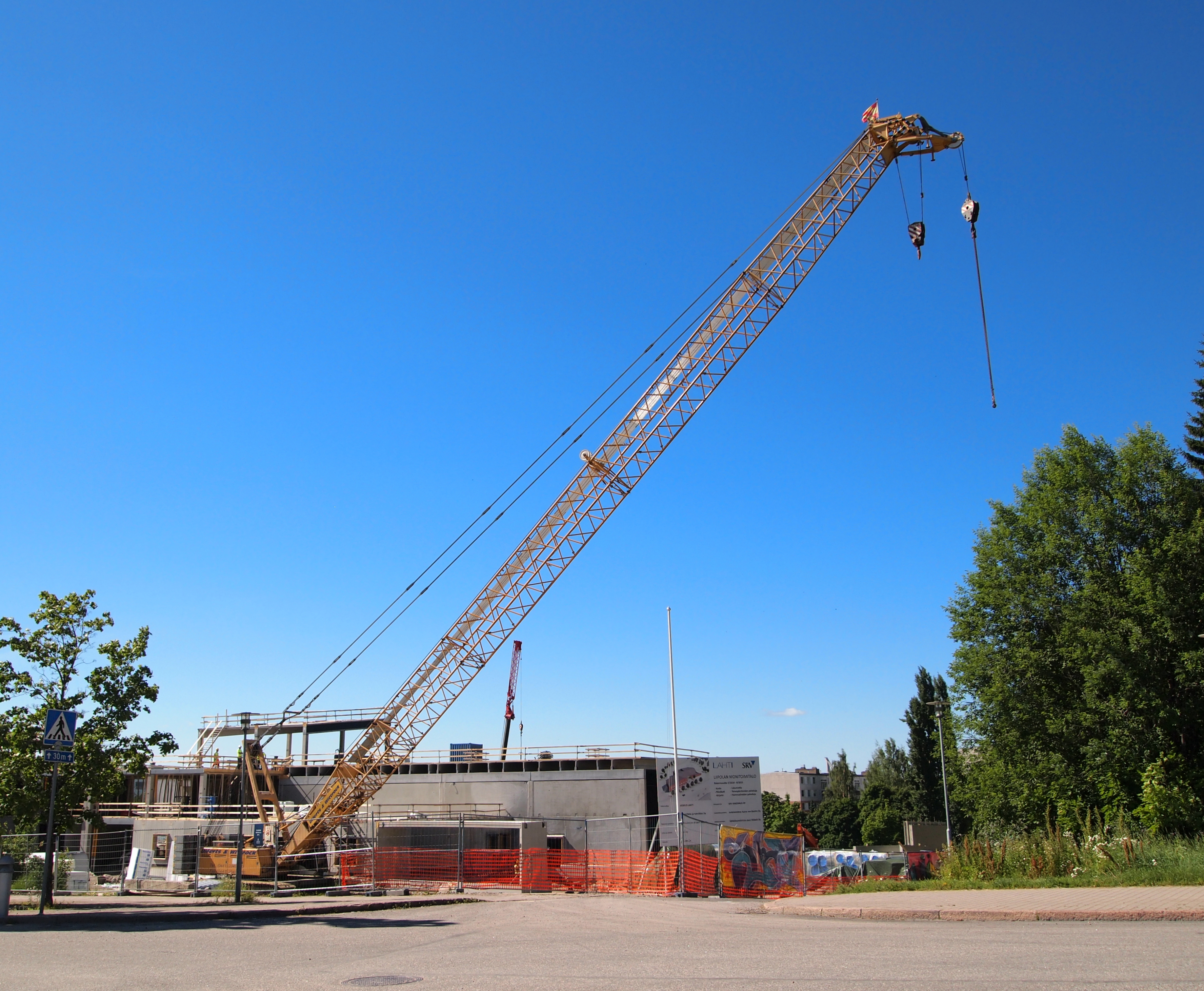 Building construction in Liipola district, Lahti.